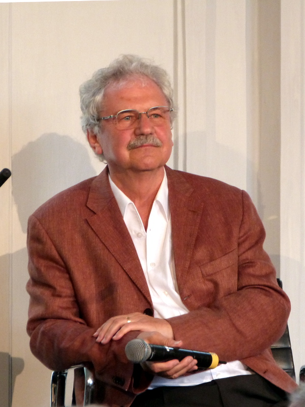 German writer Paul Maar at the Erlanger Poetenfest 2012